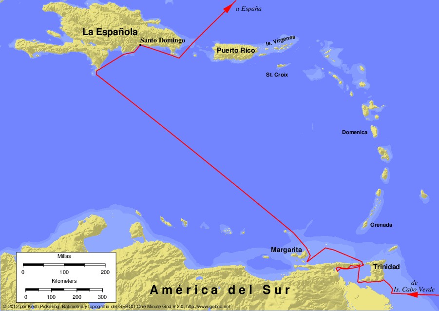 Third voyage of Christopher Columbus